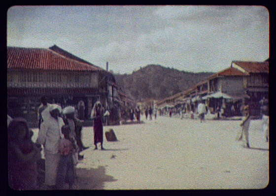 Title: Kandy - Colombo Street Physical description: 1 slide : lantern, hand colored ; 3.25 x 4 in. Notes: Forms part of: Jackson, William Henry, 1843-1942. World's Transportation Commission photograph collection (Library of Congress).; Gift; William P. Meeker; 1971.; Similar to photograph in Lot 11948 from negative LC-D4271-177.